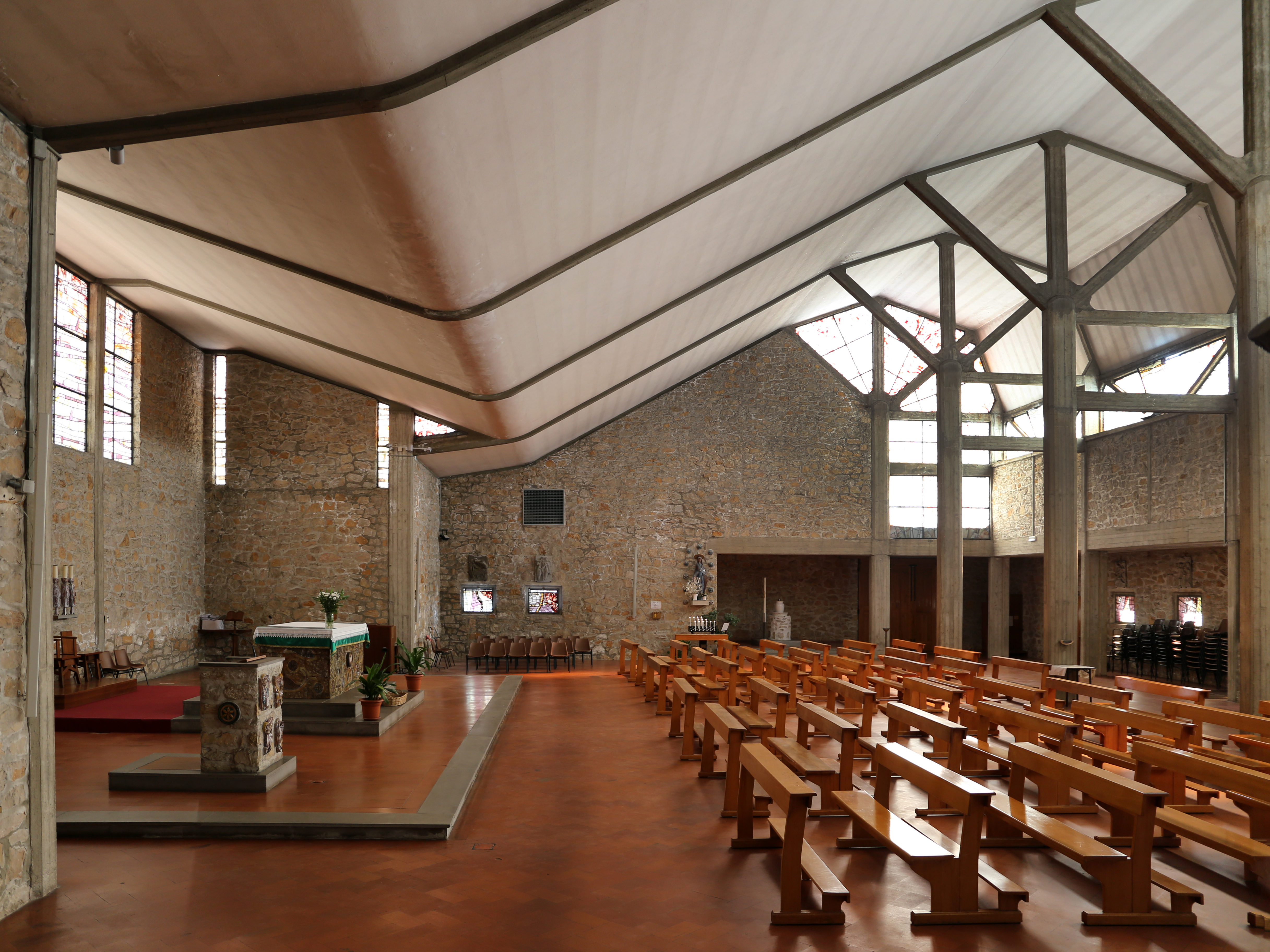 Sacro Cuore Immacolato di Maria (Pistoia)